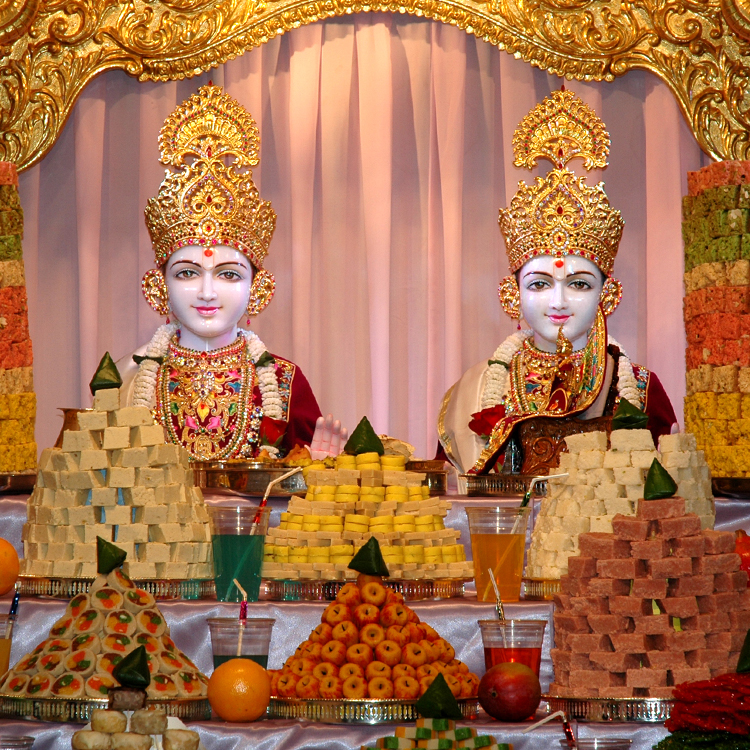 This picture represents what Annakut is like at BAPS Mandir Chicago